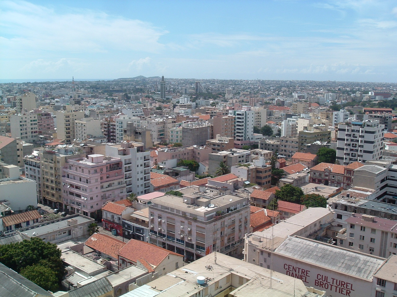 Skyline of Dakar, Senegal.